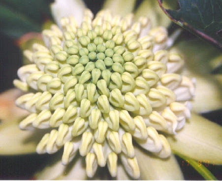 Telopea speciosissima - white form, variously known as Wirrimbirra White, or Shady Lady white. photo - cas Liber 2001